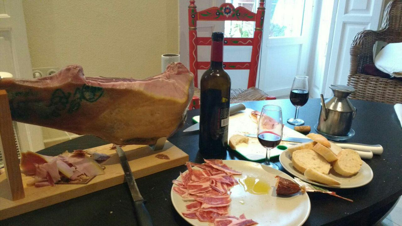 Merienda servida para tomar un ligero bocadillo y una copa de vino tempranillo.